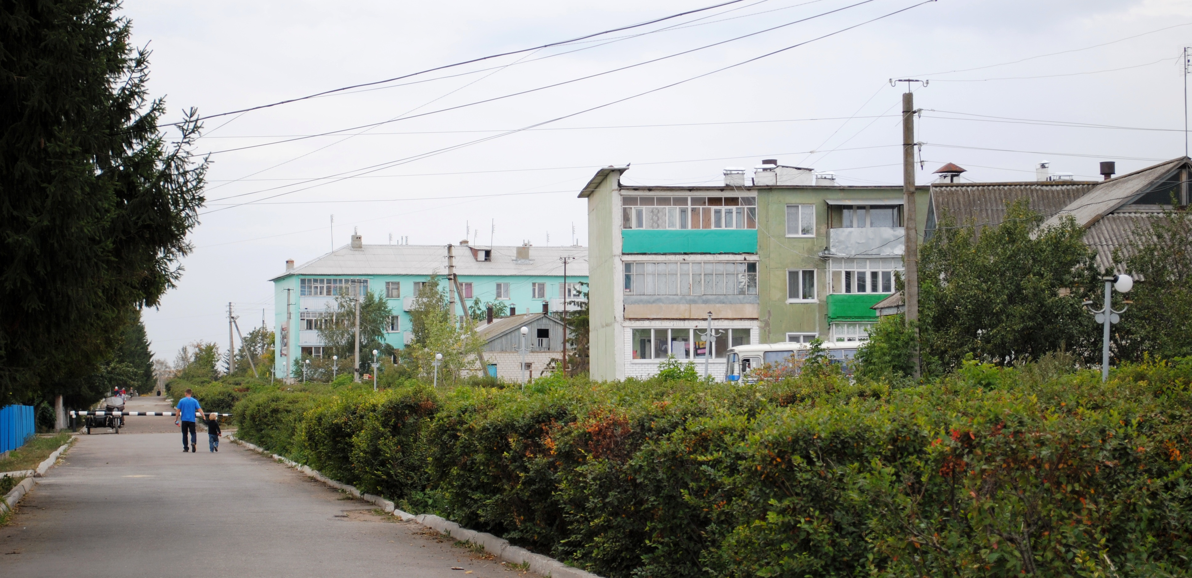 Sergievskoe in Livny